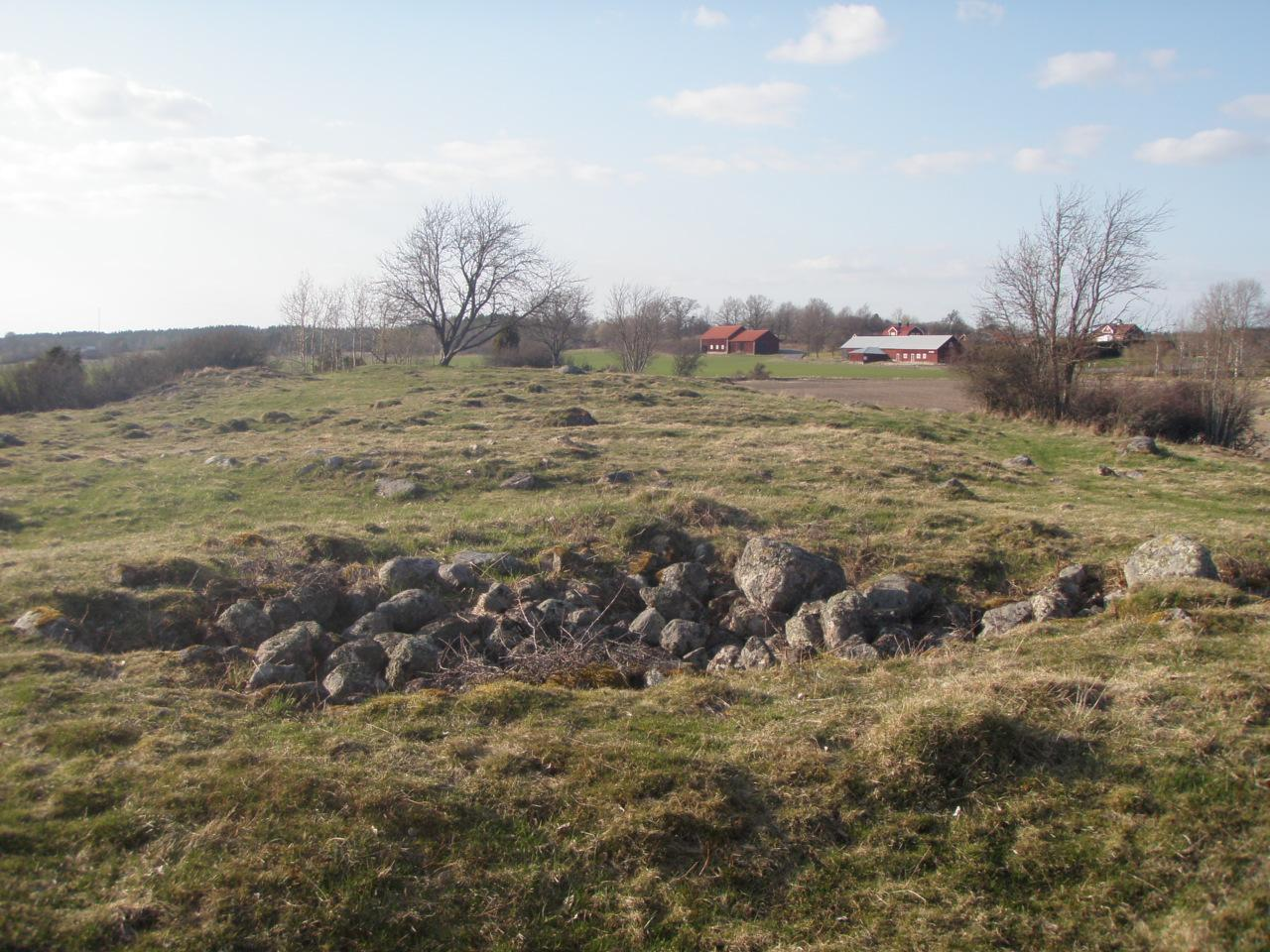 Skamby gravfält – One of Östergötlands most remarkable burial grounds is located on a hill in Skamby, Kuddby parish, in Norrköping Municipality. There are 20 visible flat barrows and a number of cup-marks in the flat rocks in the field. It is the 10 oval barrows that are remarkable. They have a large hollow in the central part which may indicate that they originally wooden sepulchral chambers which collapsed once the wood had rotted. Similar graves have been examined and shown to be burial ships in which the deceased was placed. These were graves of a high status and therefore it may be assumed that there was a village in Skamby in the vicinity perhaps with a chieftain family. A boat grave in Skamby was excavated in 2005 which found among other amber pieces to a board game. The boat had been 5-6 meter long. Other traces of the man, who lived in the 900s AD, the middle of the Viking Age, were tooth enamel, a red glass bead, a whetstone of slate and a small belt knife.